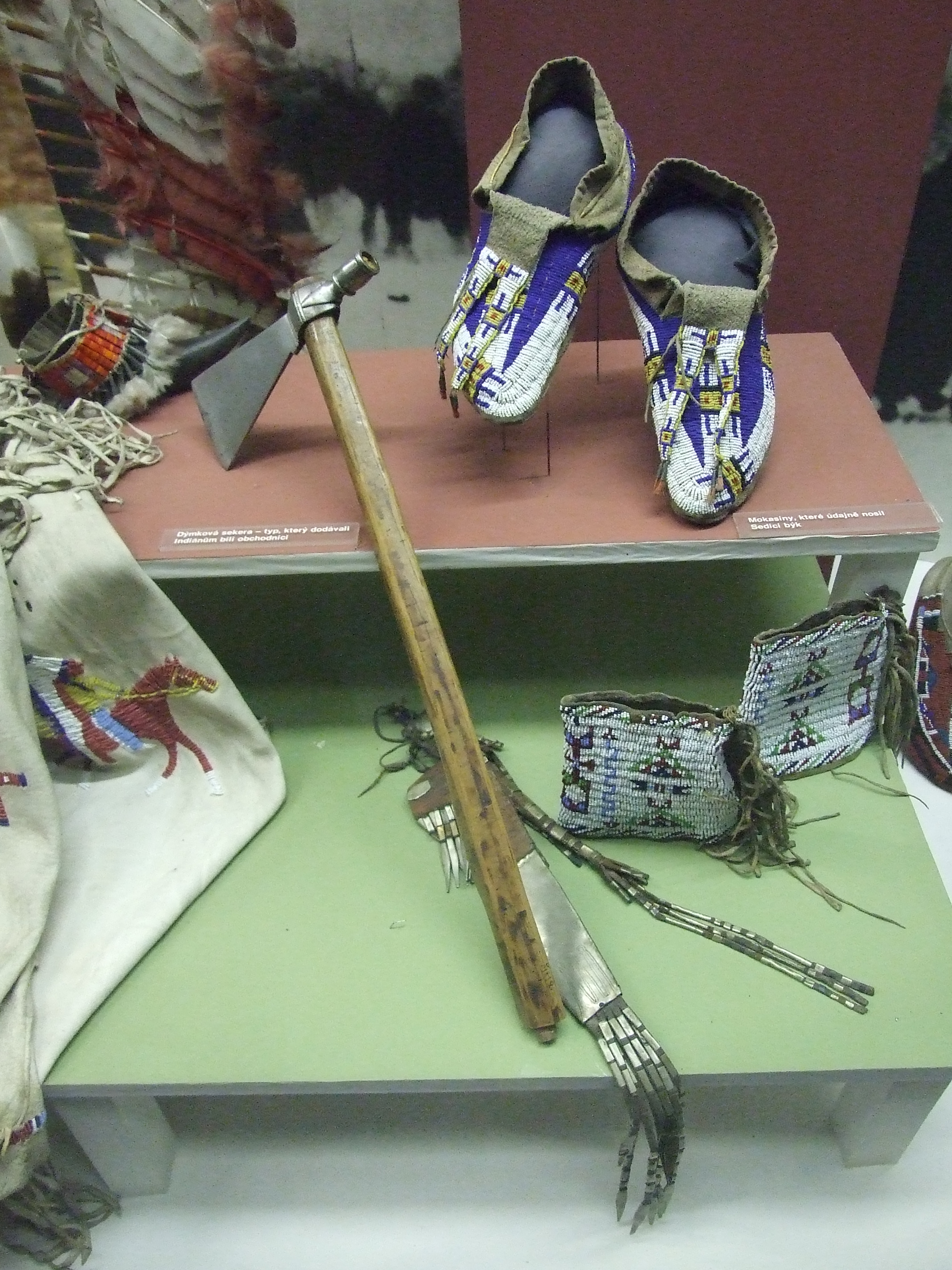 Indian Cultures of North and South America, National Museum in Prague